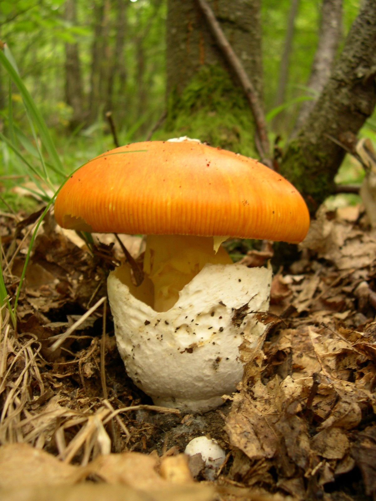 Caesar's Mushroom (Amanita caesarea). Piacenza's mountains, september 2005.